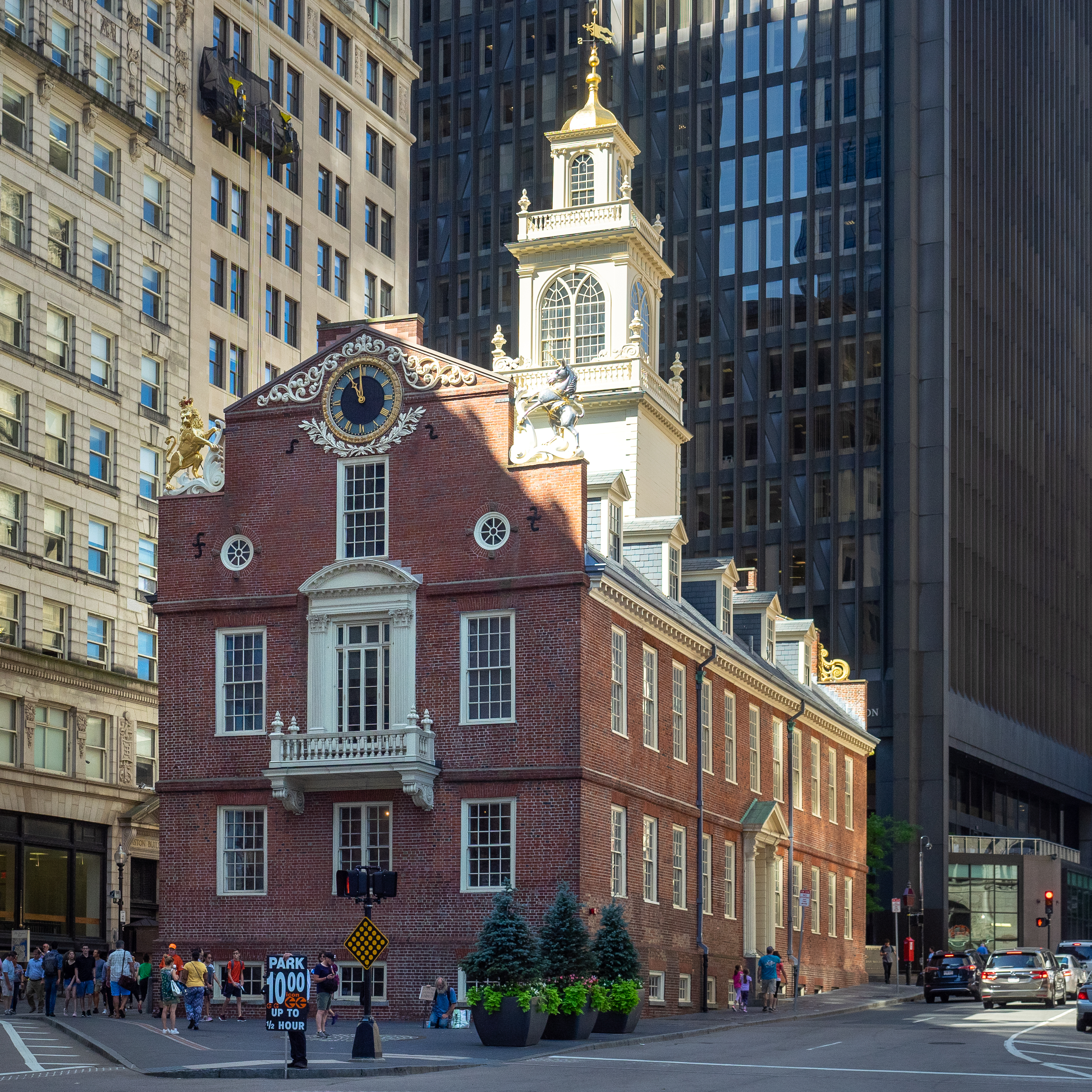 Boston, MA